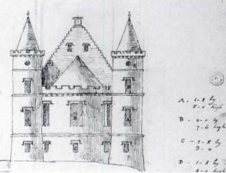 A sketch made by Robert Adam of a planned addition to Ardincaple Castle in 1774. The figures on the right are window sizes.